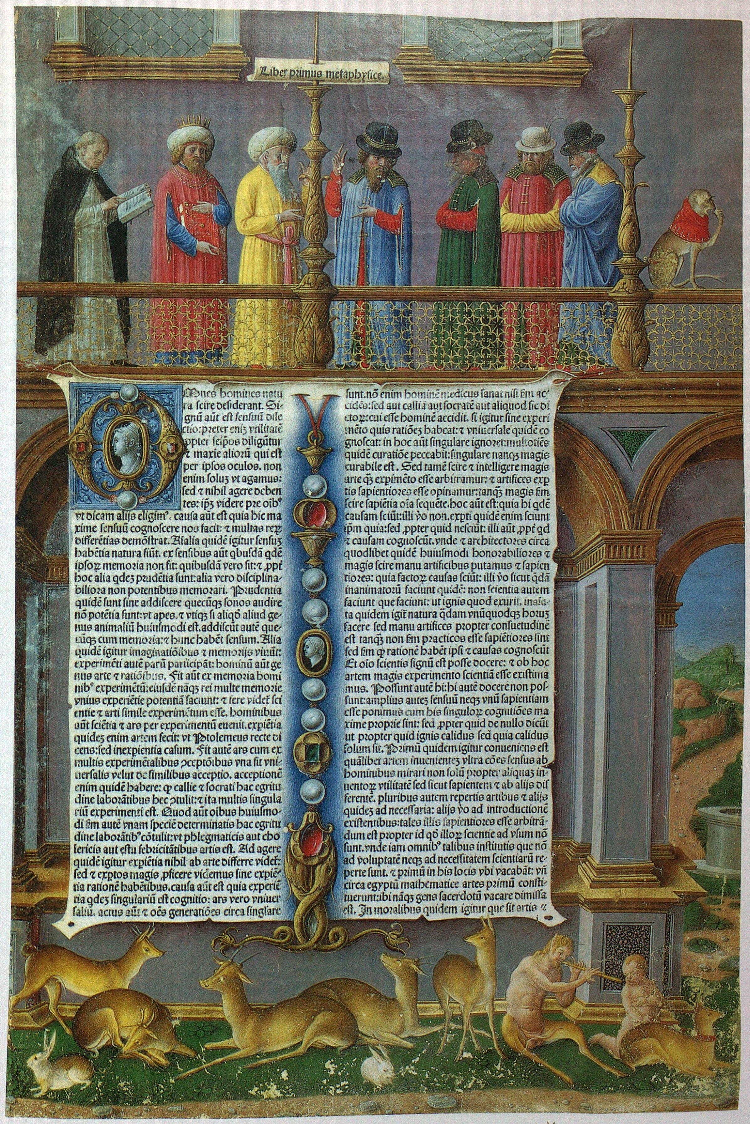 The beginning of the „Metaphysics“ in an incunabulum decorated with hand-painted miniatures. The picture shows philosophers in conversation on a balcony and, as a counterpole, an ape (right). New York, Pierpont Morgan Library, PML 21194-21195, vol. 2, fol. 1r.